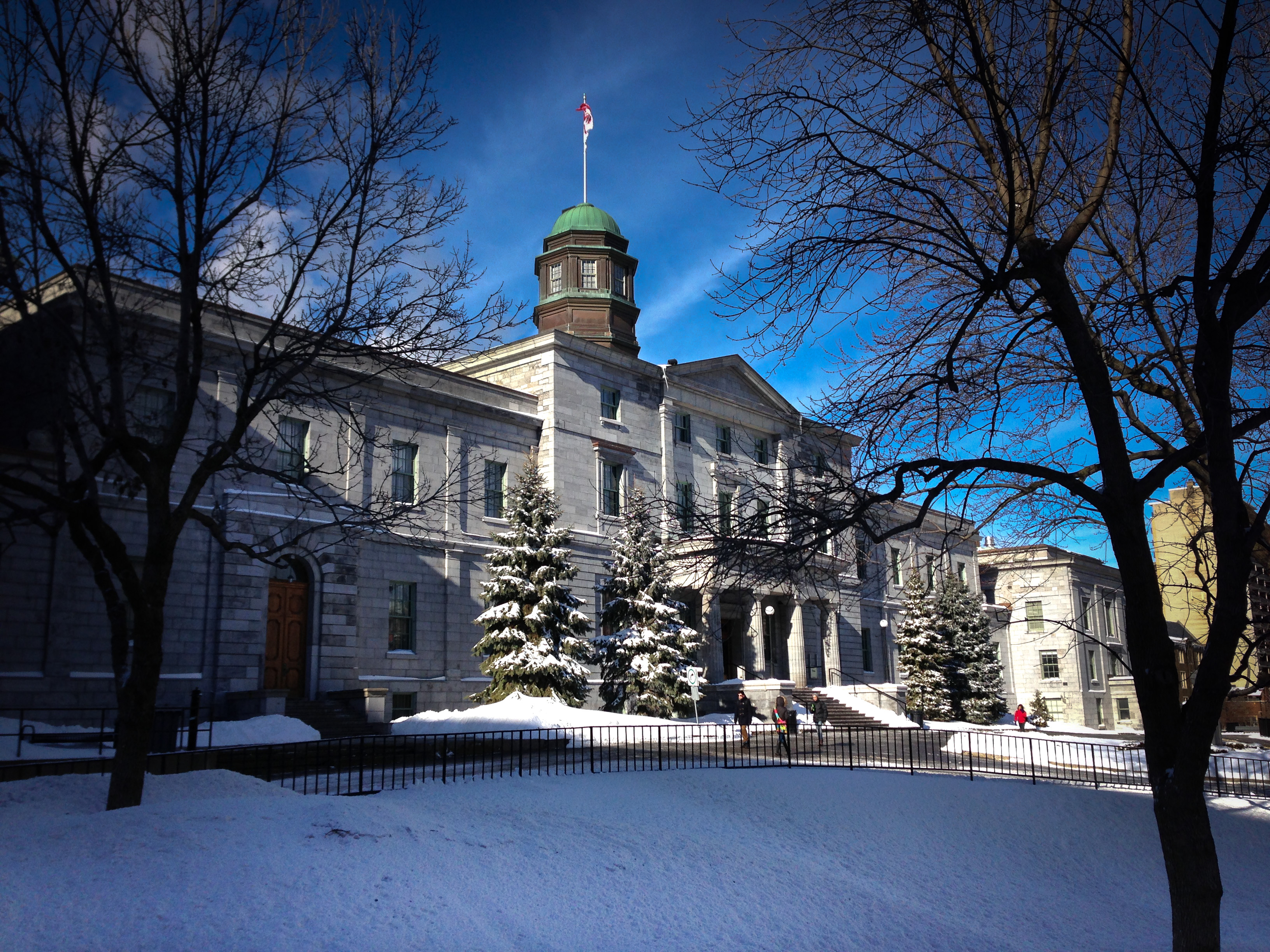 McGill downtown campus during the winter